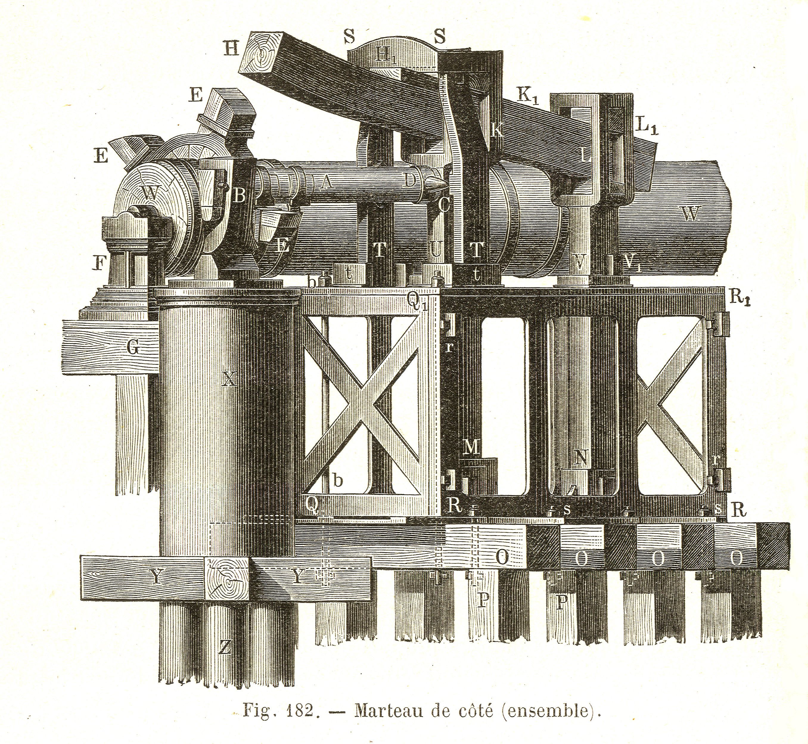 "Side hammer". Image scanned in : Manuel de la métallurgie du Fer, Tome 2, par Adolf Ledeburg, édition française traduite par Barbary de Langlade revu et annoté par F.Valton, publié par Librairie polytechnique Baudry et Cie, 1895, page 260.